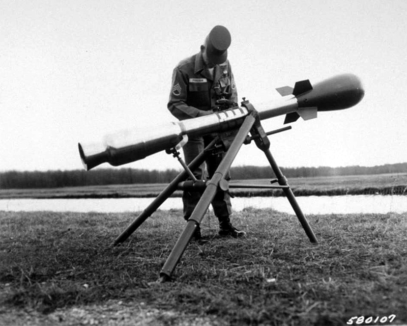 Photograph of a U.S. developed M-388 Davy Crockett nuclear weapon mounted to a recoilless rifle on a tripod, shown here at the Aberdeen Proving Ground in Maryland in March 1961. It used the smallest nuclear warhead ever developed by the United States.